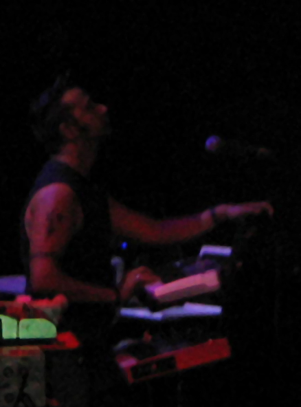 Reza Udhin, keabordist of the post-punk / industrial band Killing Joke, live in Paris, 27 sept. 2008